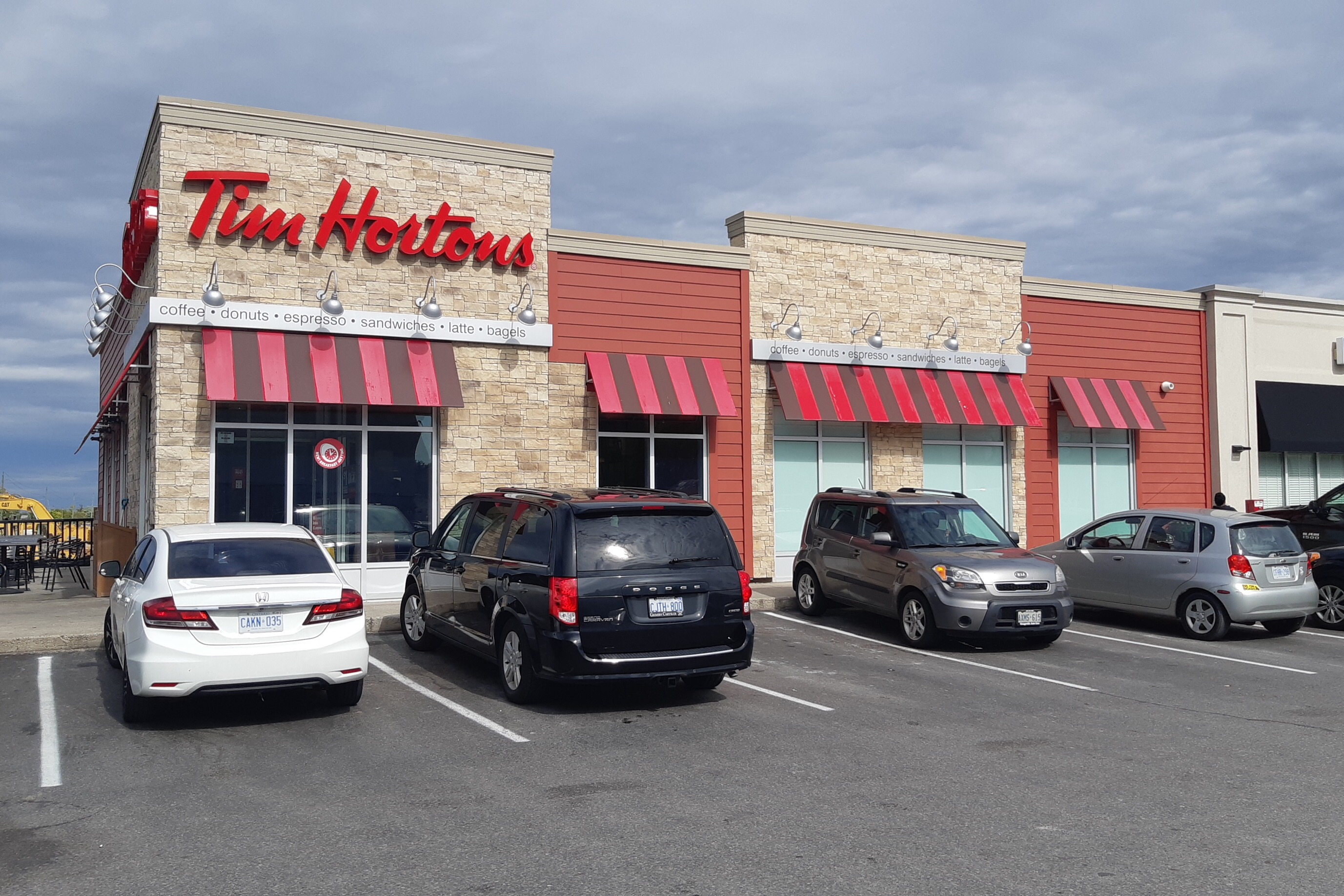 Iconic Restaurant coffee chain throughout Canada